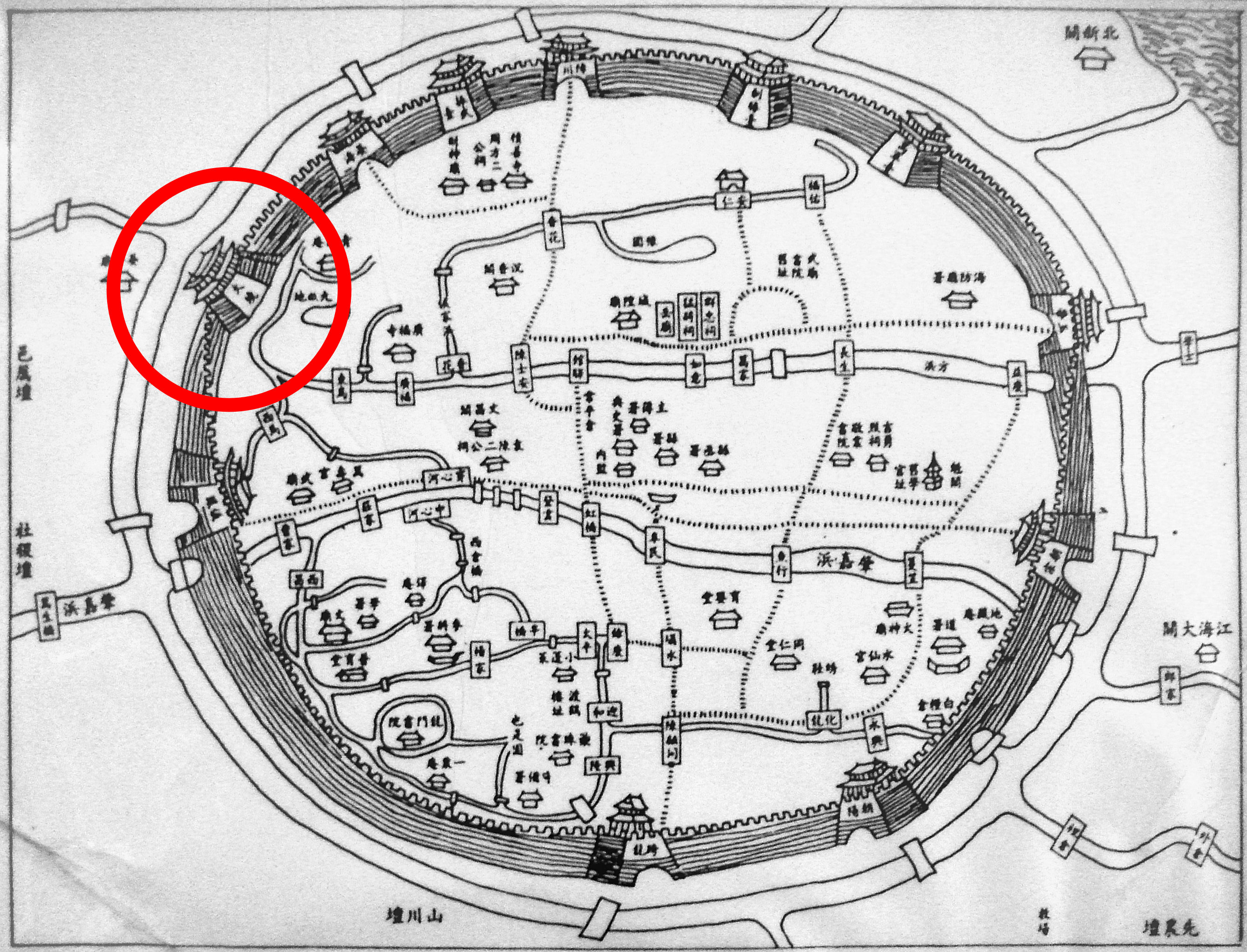 Map_of_the_Old_City_of_Shanghai_with_DajingGe